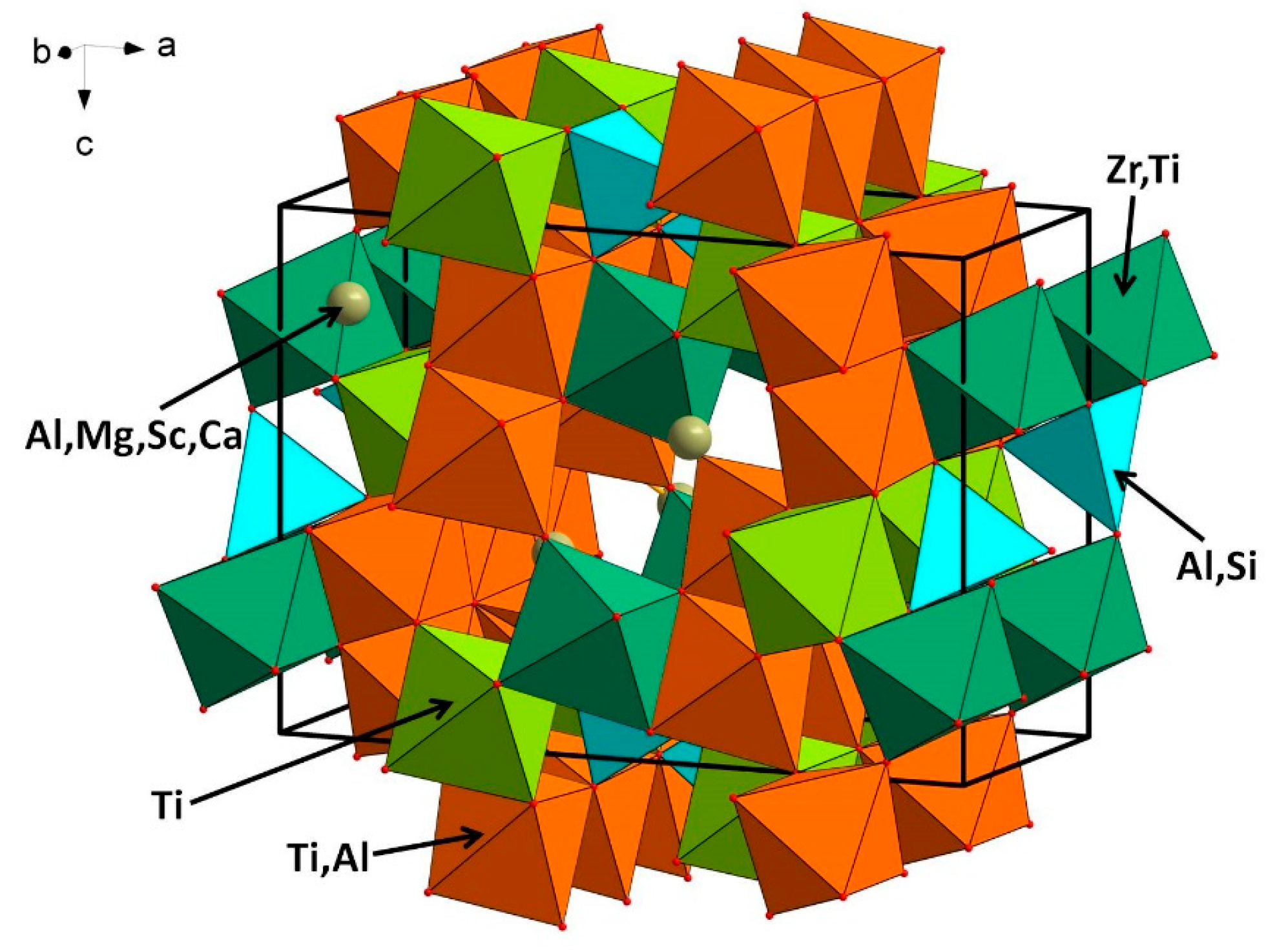 The crystal structure of carmeltazite. The unit-cell and the orientation of the figure are outlined.